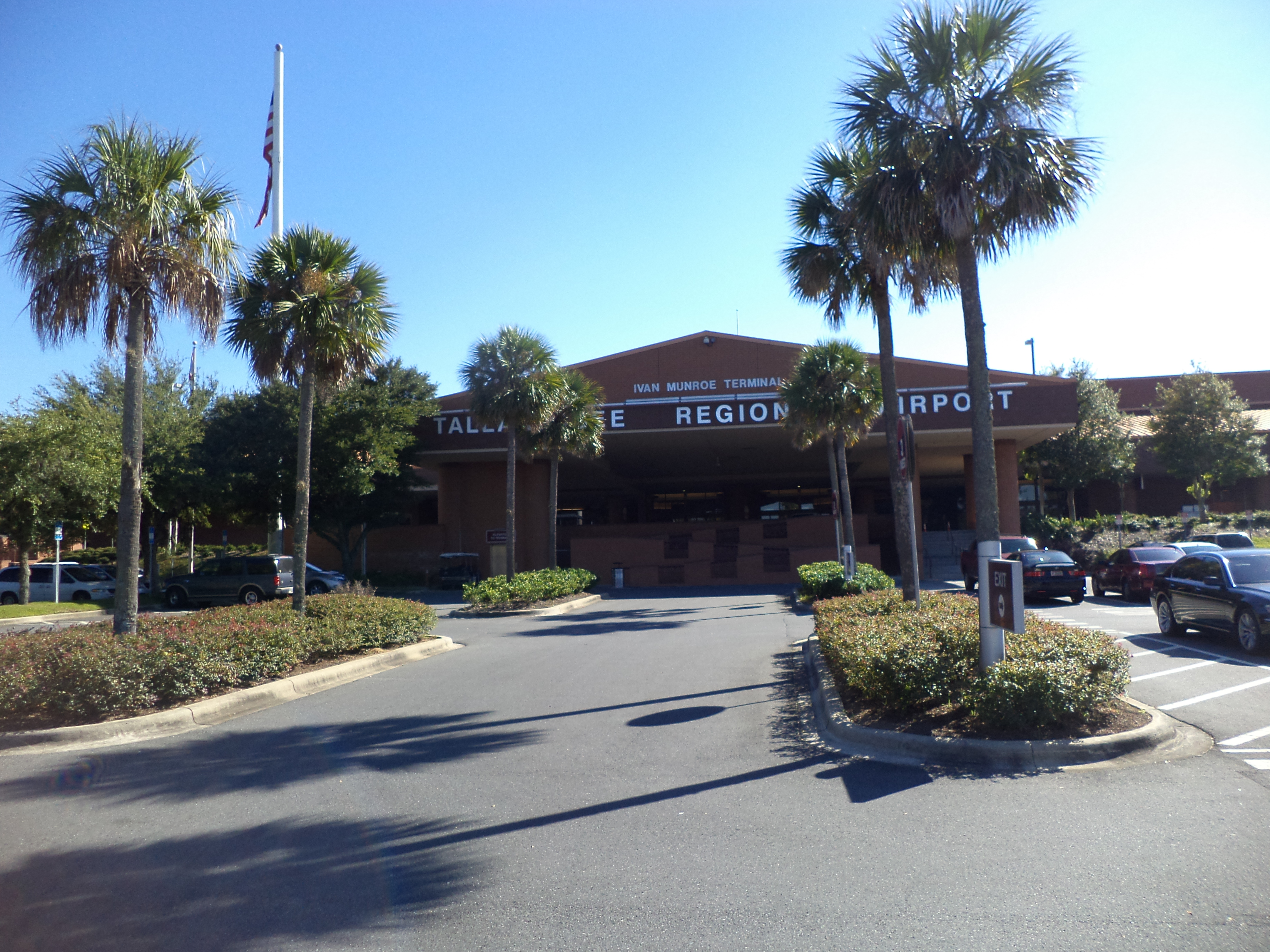 Tallahassee Regional Airport Ivan Munroe Terminal